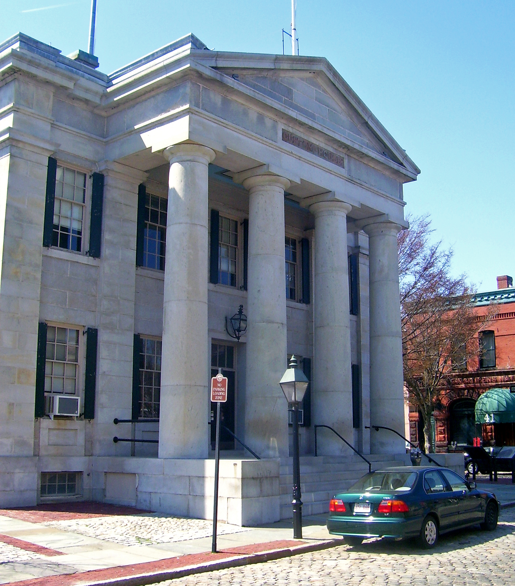 U.S. Customhouse in New Bedford, MA. Oldest U.S. Customs facility in continuous use.